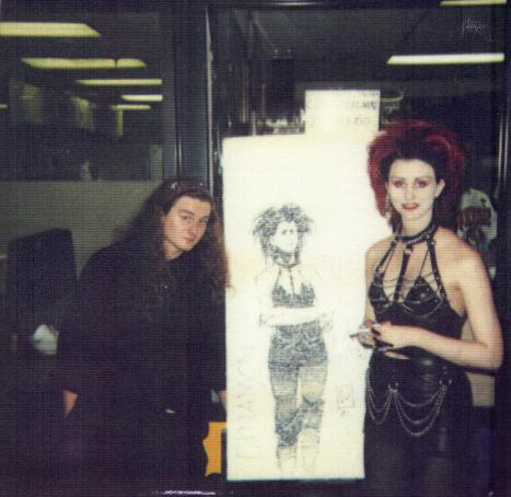 Comics artist Mike Dringenberg and his friend, Cinamon "Sin" Hadley, the visual inspiration for Death from The Sandman comics series, taken at Dobie Mall back in the mid 90s.